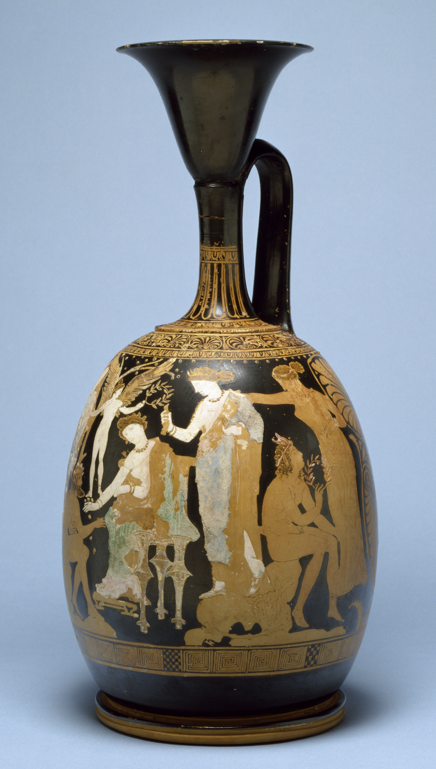 This vase is an exquisite example of the "Kerch" ware, distinguished by graceful poses, delicate details, gilding, and abundant colors. The subject is games of love. A seated nymph triumphs at "knucklebones," a game in which both players toss bones from the ankle of a sheep into the air and try to catch them on the back of their hand. Her unsuccessful opponent is a satyr. Behind him stands Aphrodite between two Eros figures, who are offering laurel wreaths of victory to the nymph and to the youth at far left, dressed as a bridegroom.